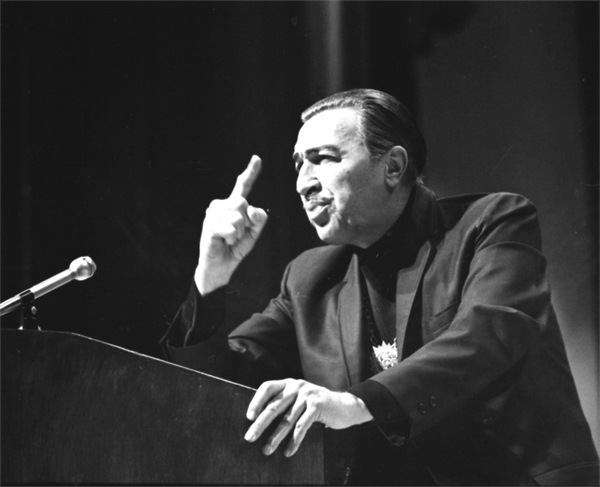 U.S. Congressman Adam C. Powell of New York speaking at a Human Rights Symposium in FSU's Westcott auditorium.